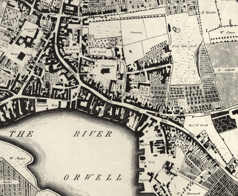 Depiction of basin in the River Orwell, and the post of Ipswich in 1778